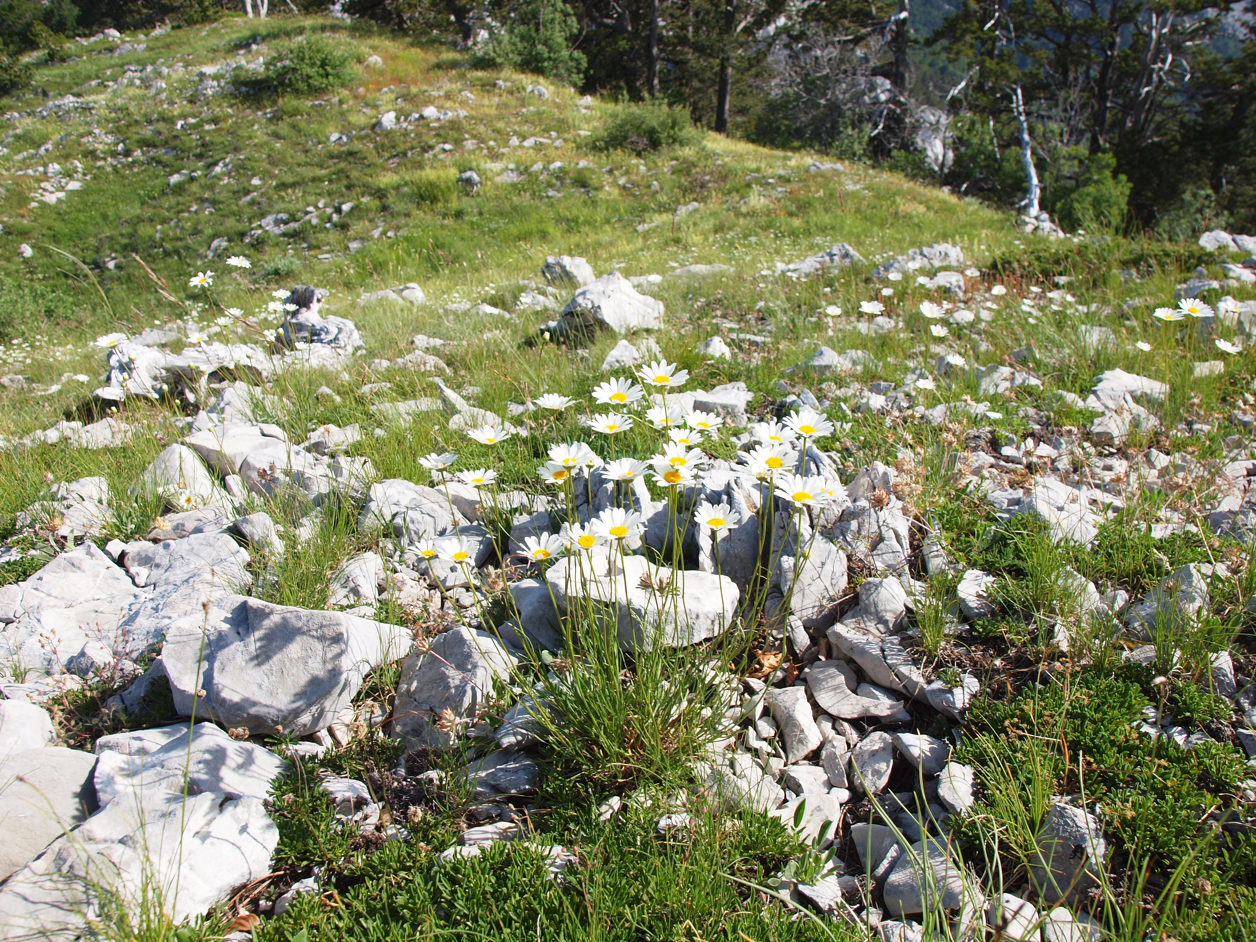 Leucanthemum chloroticum col between Vucji zub and Jastrebica ridge leg P. Cikovac